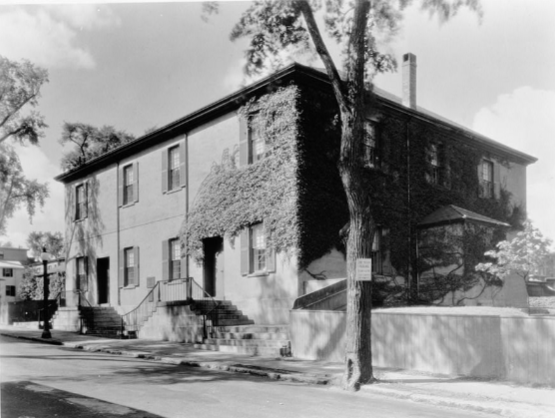 Friends Meeting House, Spring Street, New Bedford, MA, 1933, Library of Congress. Arthur C. Haskell, Photographer. Historic American Buildings Survey.